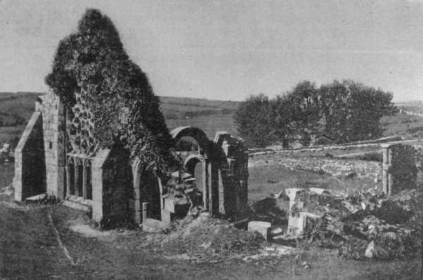 Chapelle de Languidou avant restauration